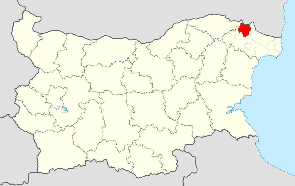 Location map of Krushari Municipality within Bulgaria and Dobrich Province. Equirectangular projection, N/S stretching 130 %. Geographic limits of the map: N: 44.4° N S: 41.1° N W: 22.1° E E: 28.9° E